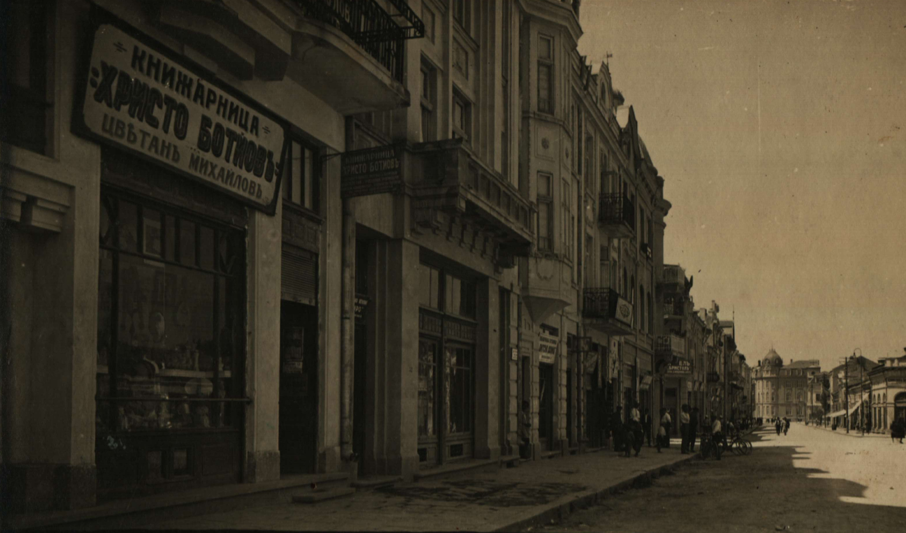 Pleven, Bulgaria